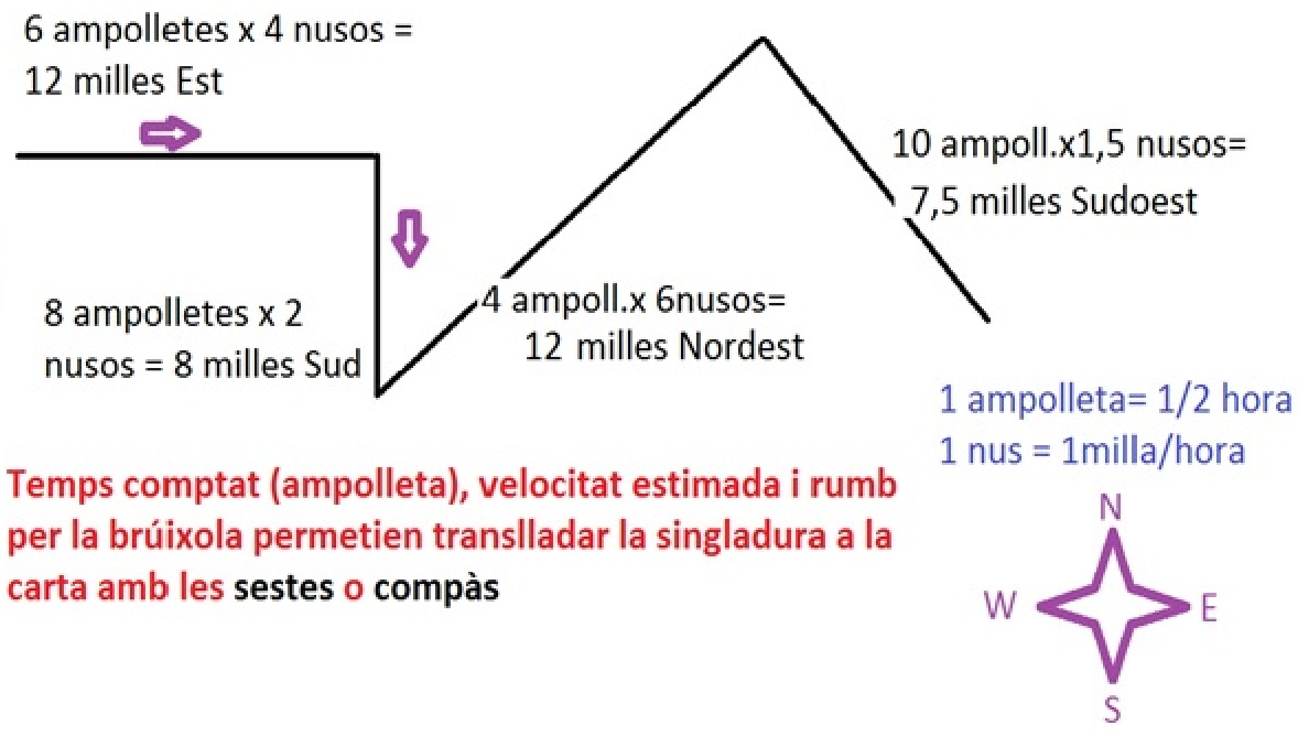 Medieval dead recockning